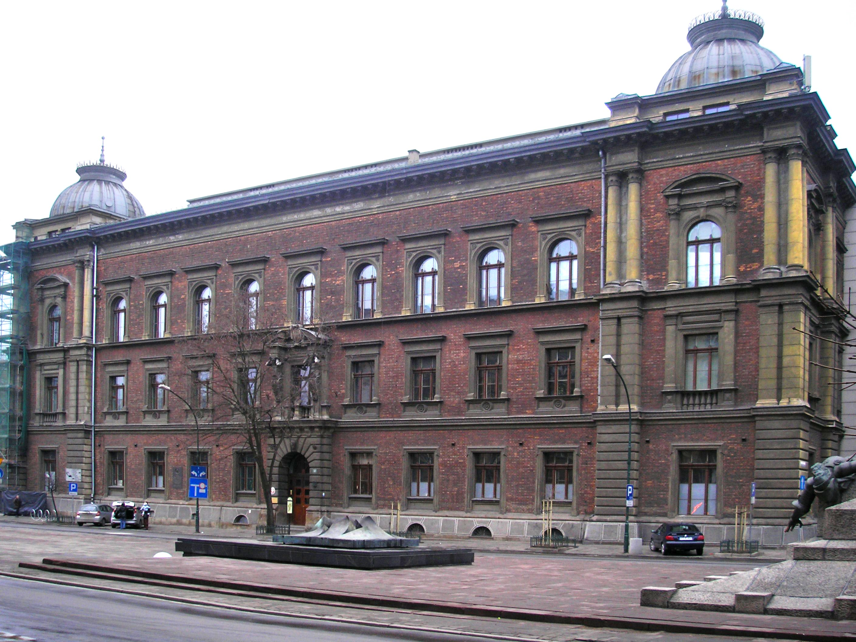 Academy of Fine Arts in Kraków